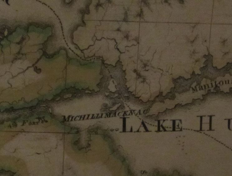 This photograph of a detail of Abel Buell's 1783 "New and Correct Map of the United States of North America" shows the international border appearing to run through St. Joseph Island.